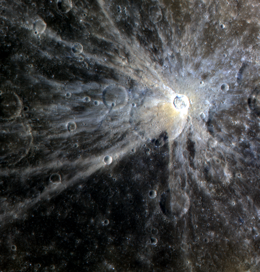 Date acquired: November 12, 2011 Image Mission Elapsed Time (MET): 229581348, 229581352, 229581356 Image ID: 1003074-1003076 Instrument: Wide Angle Camera (WAC) of the Mercury Dual Imaging System (MDIS) WAC filters: 9, 7, 6 (1000, 750, 430 nanometers) as red, green, blue Center Latitude: -0.97° Center Longitude: 234.0° E Resolution: 257 meters/pixel Scale: Mena has a diameter of 15 km (9 miles) Incidence Angle: 29.7° Emission Angle: 16.3° Phase Angle: 46.0° Of Interest: The young rays of Mena crater contrast brightly against the surrounding surface, though the rays will gradually fade with time. The asymmetric pattern of the rays, with a gap in the south-western direction, may be due to the angle at which the impact that formed the crater occurred, or to the fact that Mena formed on the rim of a larger pre-existing impact crater, as seen in this image. This image was acquired as a high-resolution targeted observation. Targeted observations are images of a small area on Mercury's surface at resolutions much higher than the 250-meter/pixel (820 feet/pixel) morphology base map or the 1-kilometer/pixel (0.6 miles/pixel) color base map. It is not possible to cover all of Mercury's surface at this high resolution during MESSENGER's one-year mission, but several areas of high scientific interest are generally imaged in this mode each week.